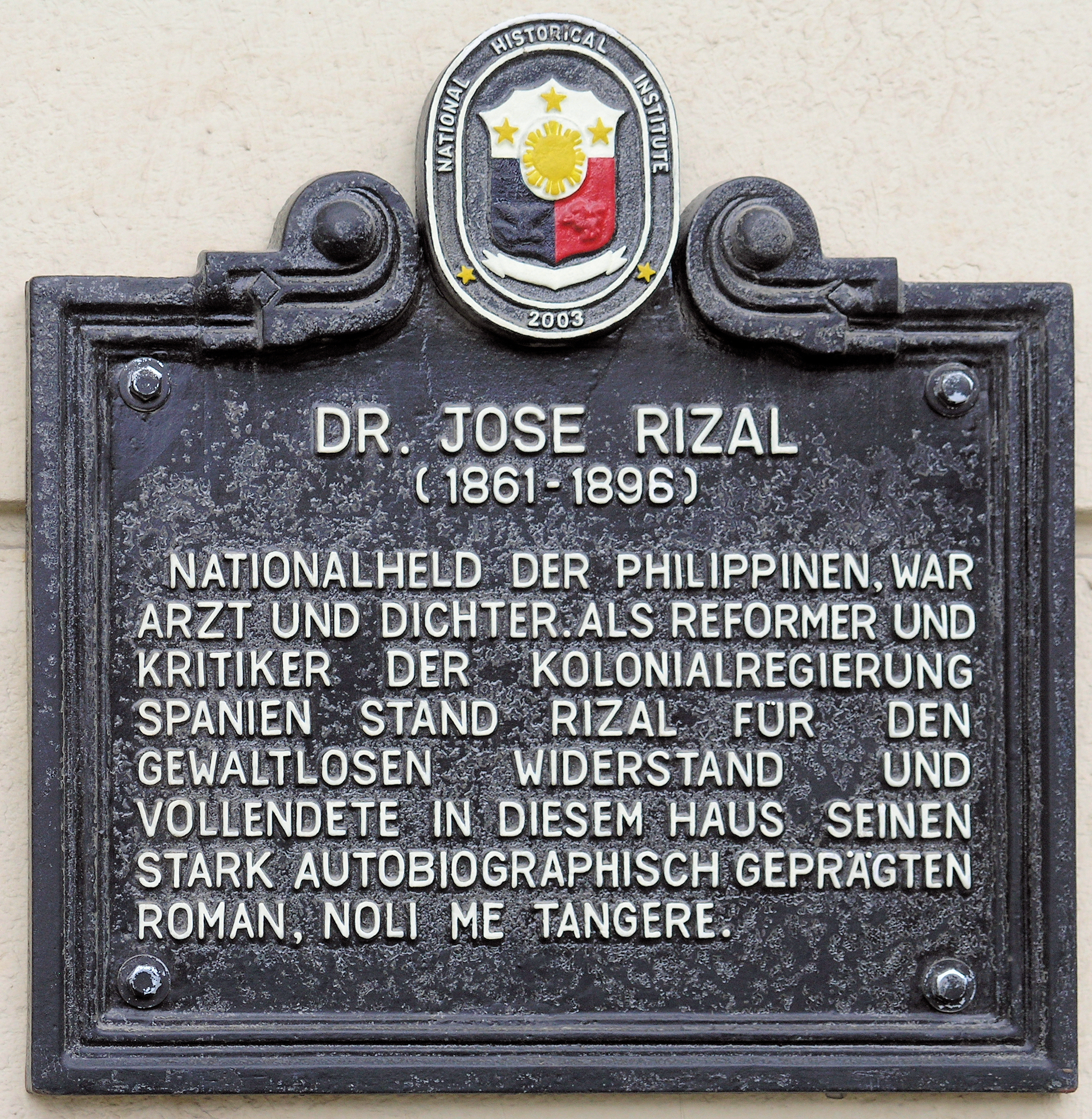 Memorial plaque, José Protasio Rizal, Jägerstr 71, Berlin-Mitte, Germany Koordinate:52°30′49.4″N 13°23′11.3″E / 52.513722°N 13.386472°E